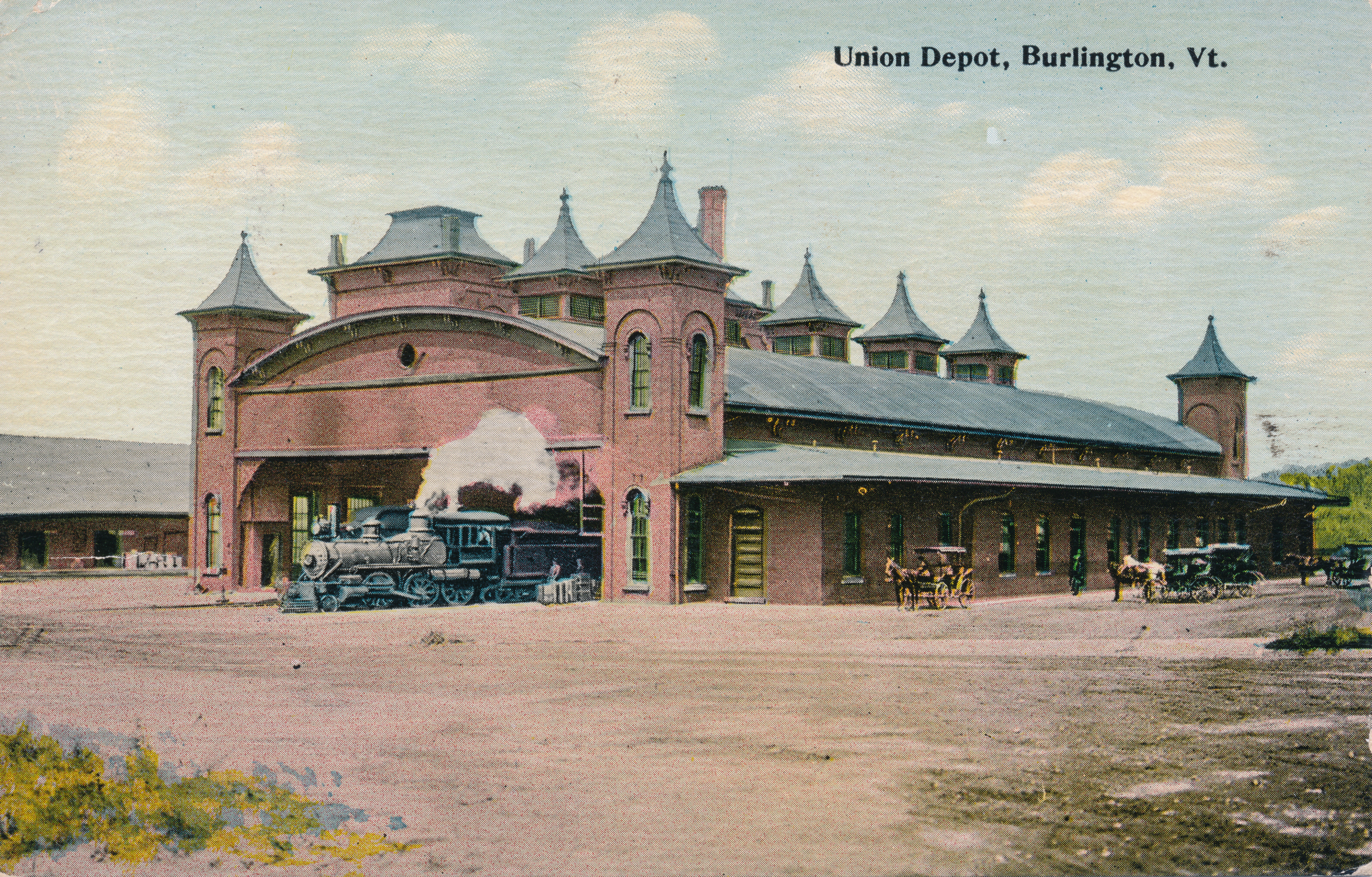 An early postcard of the former Union Deport in Burlington, Vermont.